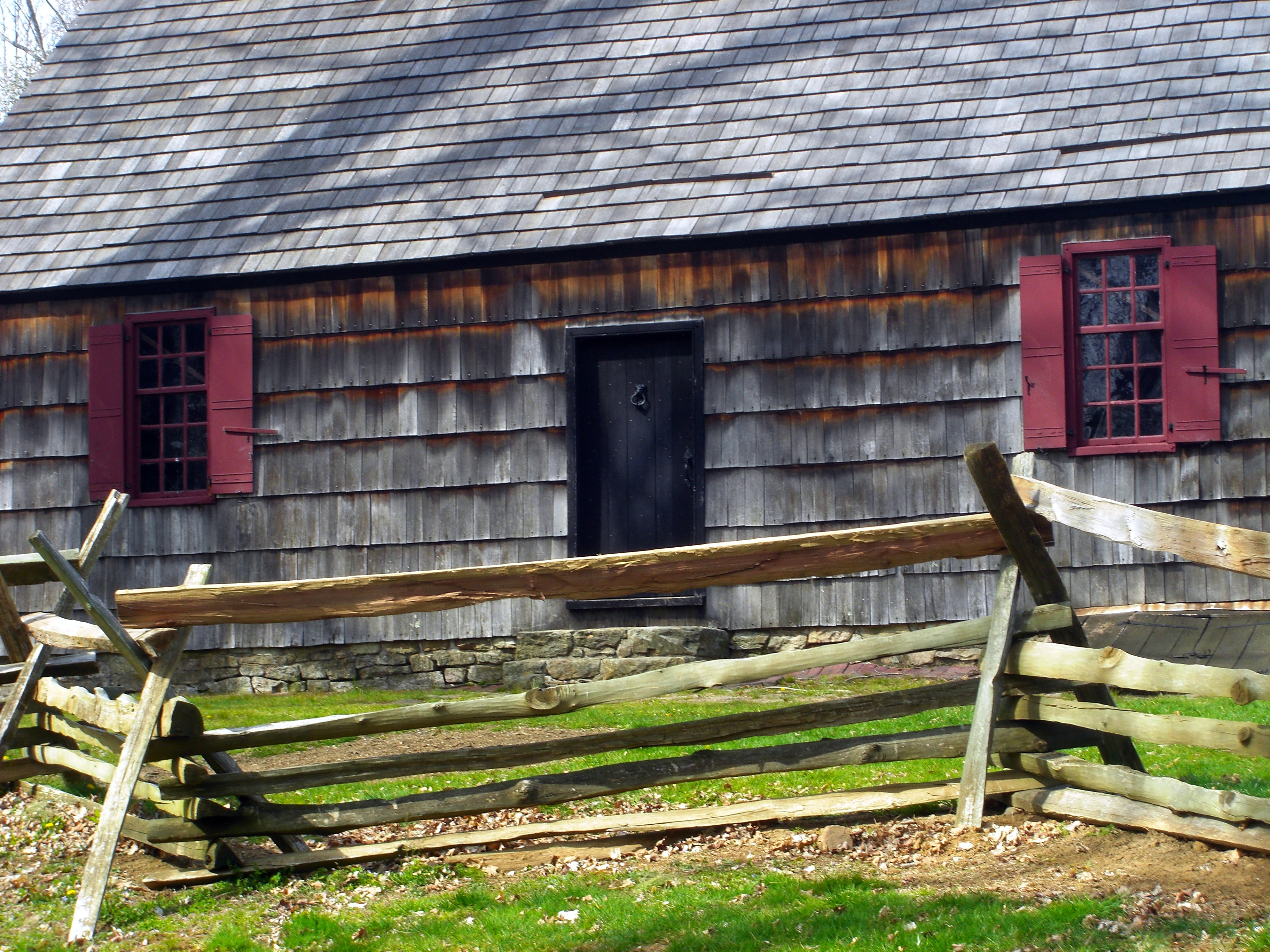 The Wick House at the Jockey Hollow unit of MNHP.